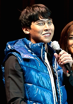 Enchong Dee attending the Star Magic Tour on April 16, 2011.